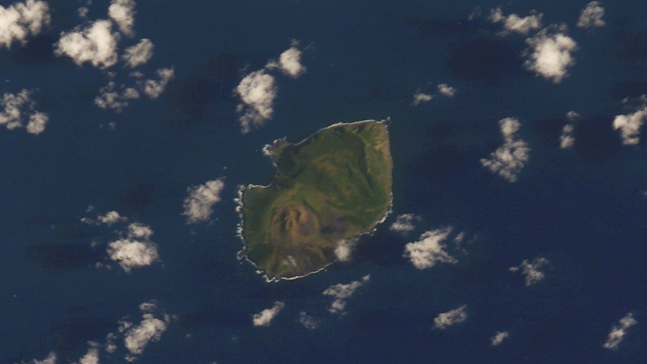 NASA astronaut image of Guguan Island, Northern Mariana Islands